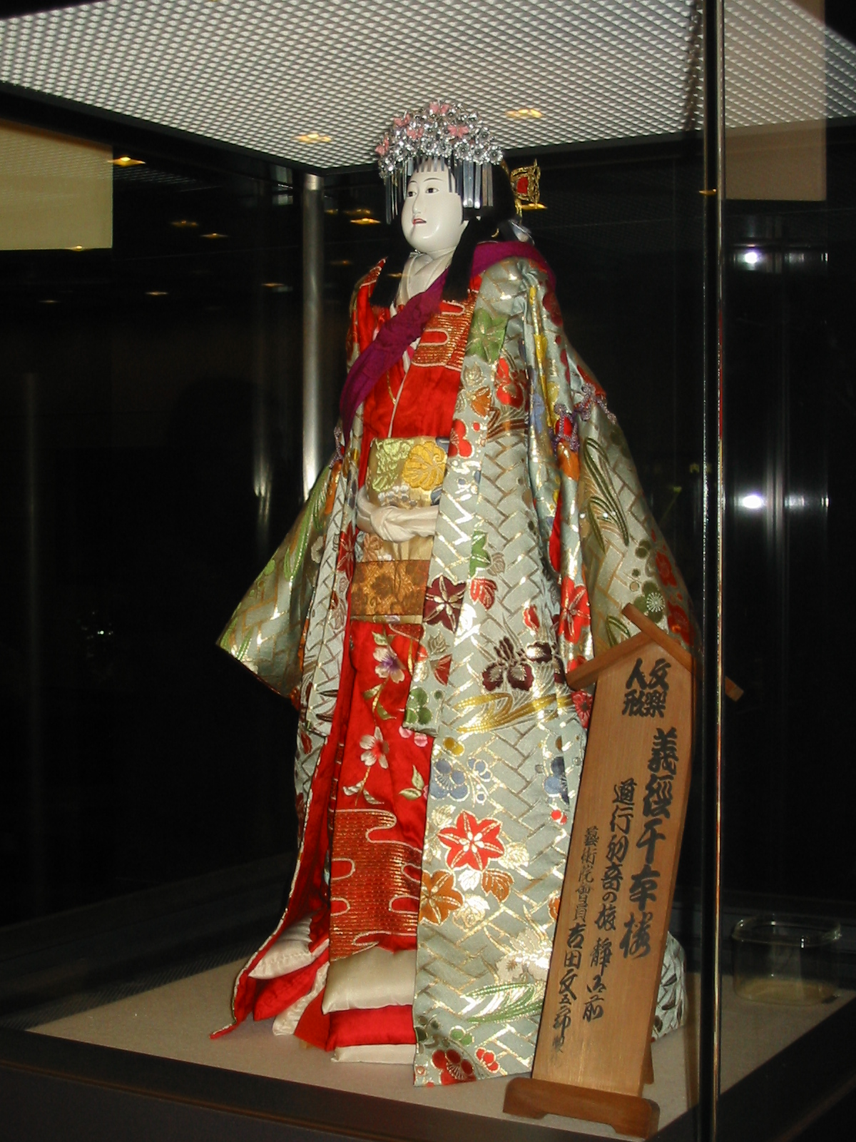 Bunraku_doll_in_national_theatre_Osaka